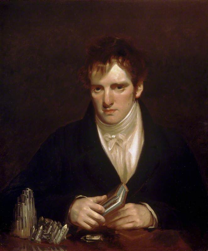 Portrait of the Scottish mineralogist and banker Thomas Allan (1777–1833) by the Scottish portrait painter John Watson Gordon (1788–1864)